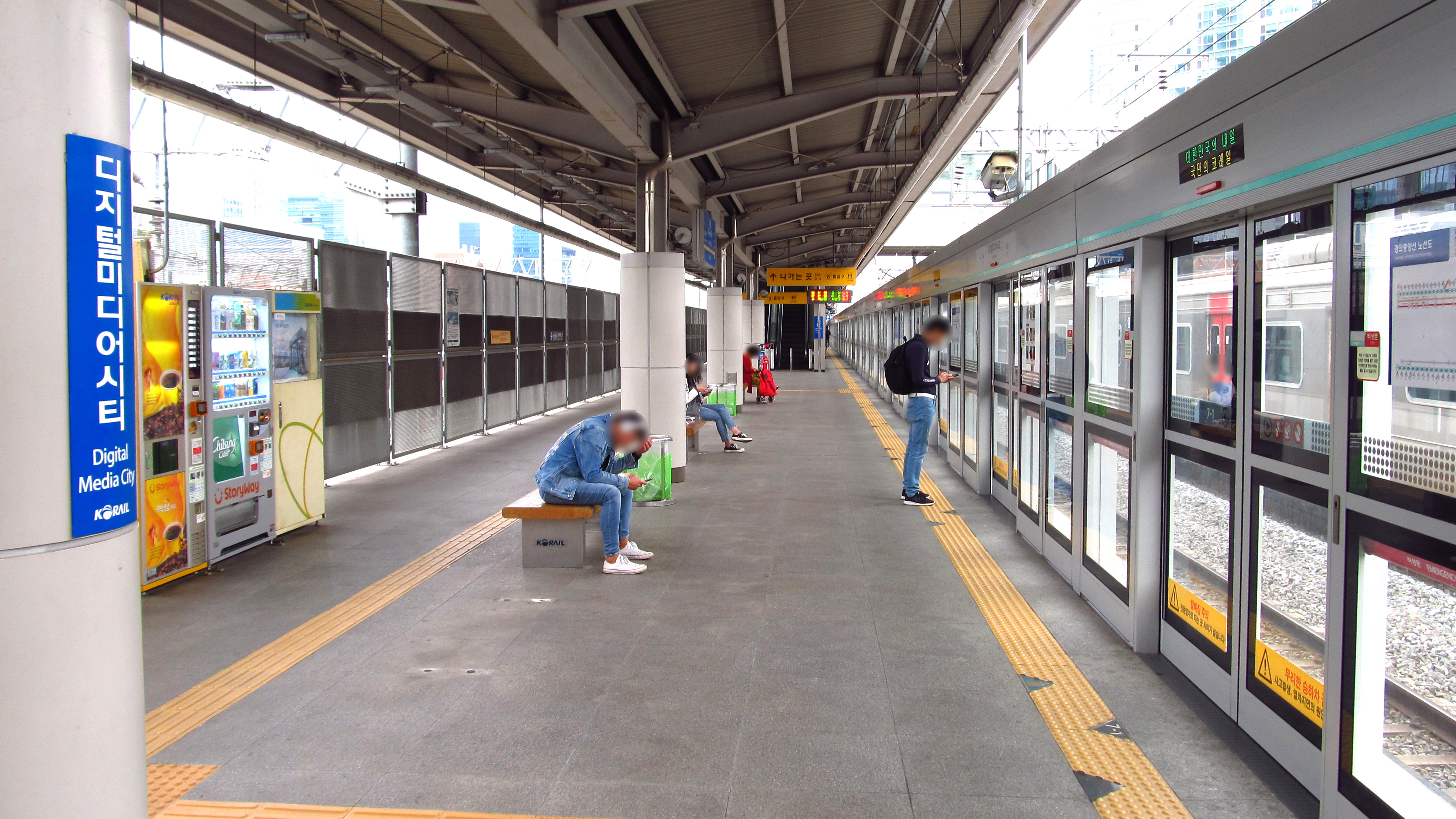 The Musan-bound platform at Digital Media City Station on the Gyeongui-Jungang Line in Eunpyeong-gu, Seoul, Republic of Korea(South Korea)